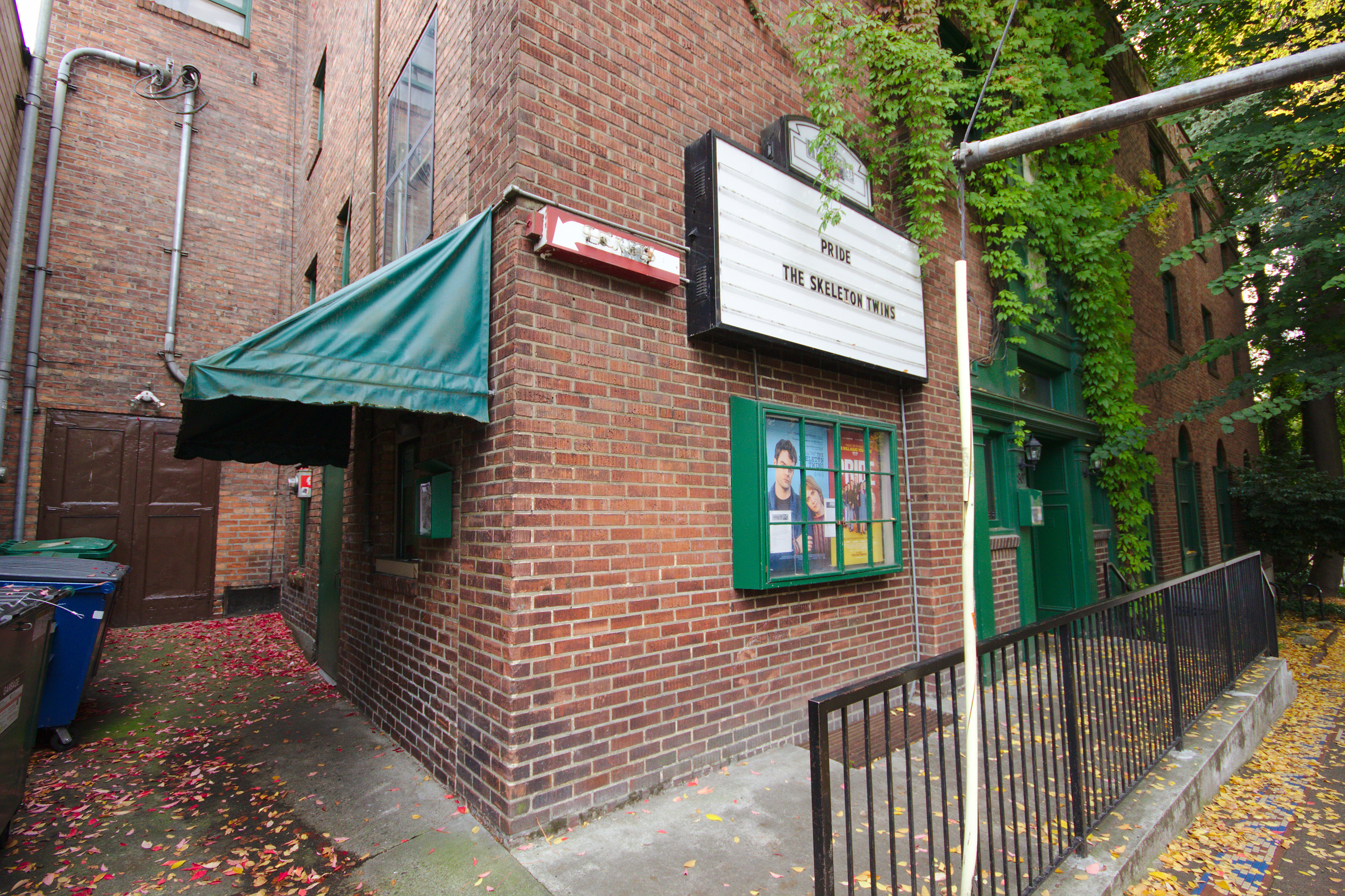 The Harvard Exit Theatre in the Capitol Hill neighborhood of Seattle, Washington